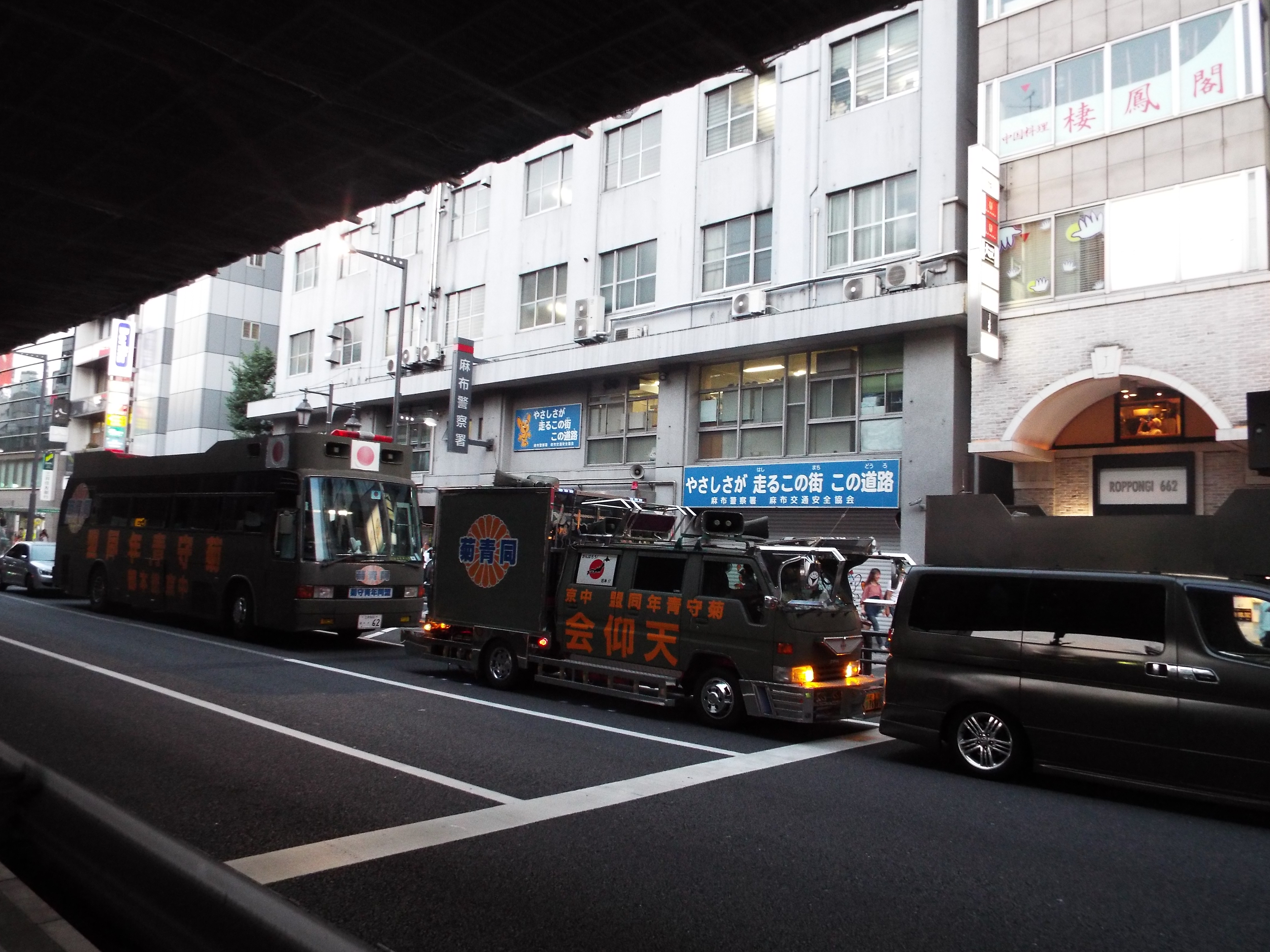 2015 August 9, 反ロシアデー ("anti-Russia day"), protest by extreme right-wing groups. 麻布警察庁